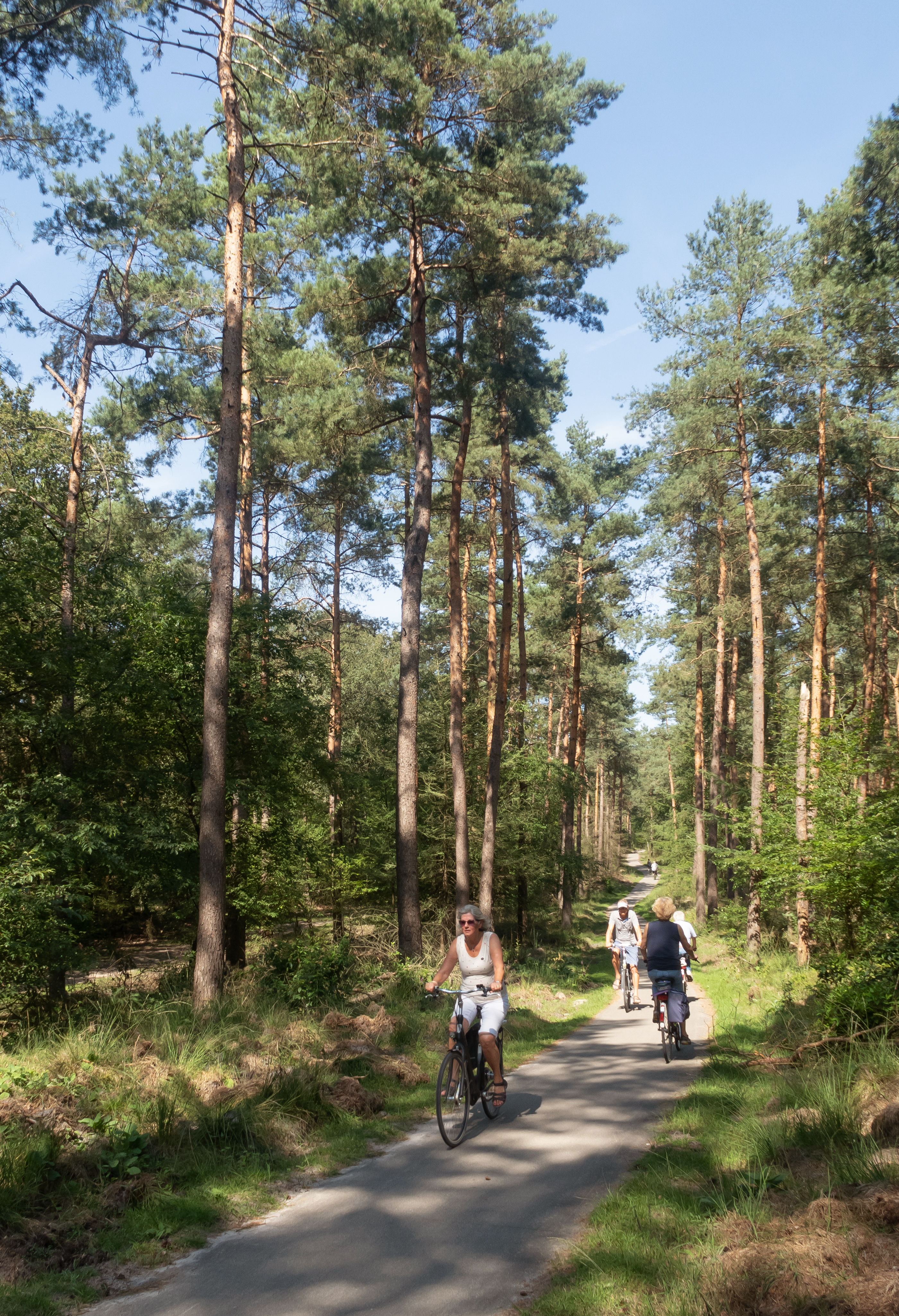 between Hoenderloo and Hoog Buurlo, cycle track het Dabbelosepad